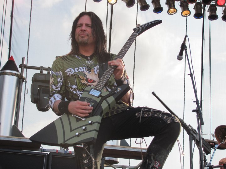 Jason Hook at BSMF '10